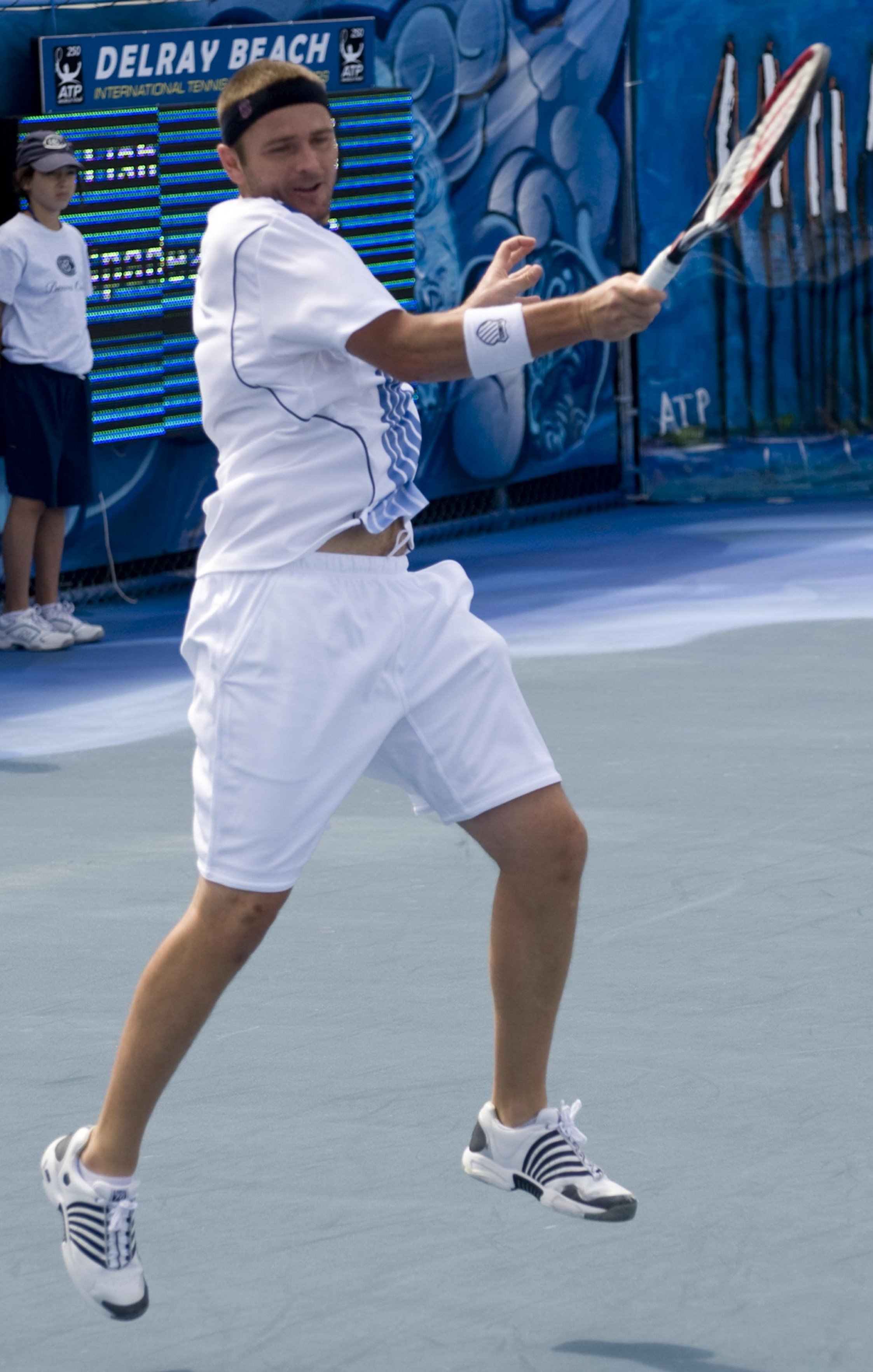 Mardy Fish at 2009 Delray Beach International Tennis Championships, Delray Beach, Florida, United States